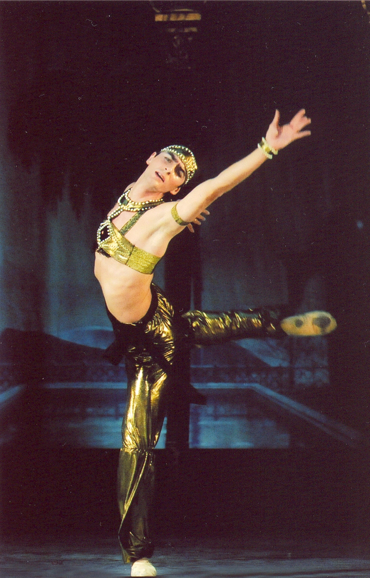 The photo was taken during a performance of Scheherazade